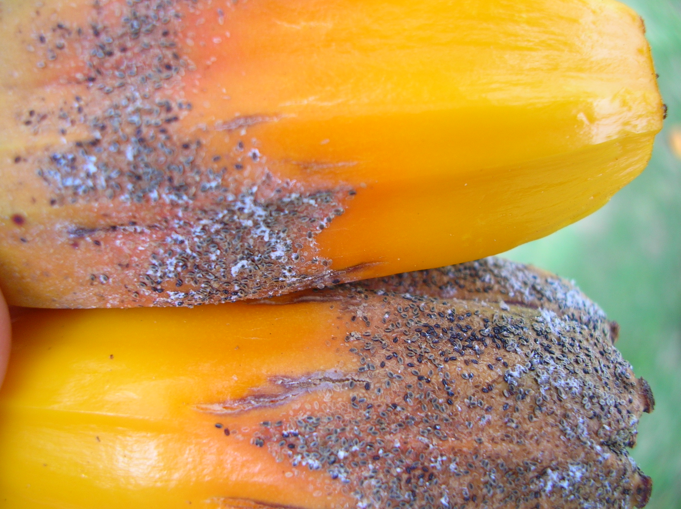 Pandanus tectorius (fruit). Location: Maui, Maui Nui Botanical Garden